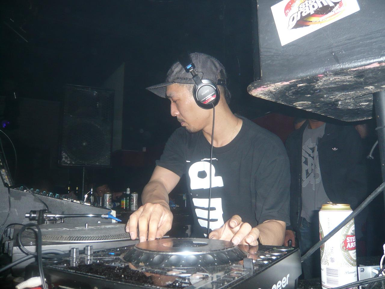 Dubstep producing Goth-Trad DJ-ing at DMZ, london in May 2008. He is using a Pioneer CDJ